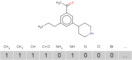 SImple structural fingerprint